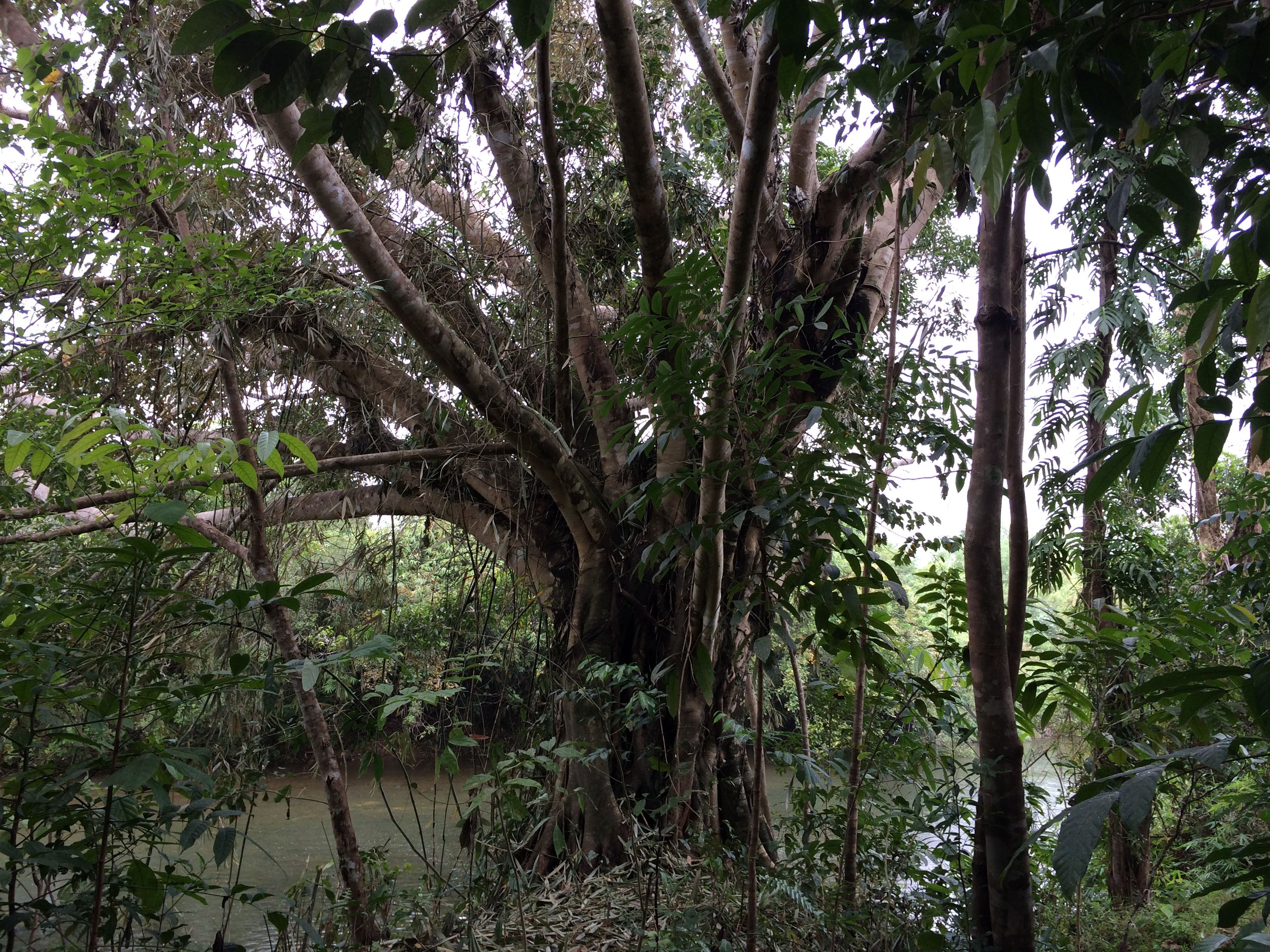 A Balete Tree on the edge of a river in the Philippines. Located in Tagkawayan area, Luzon Island, Philippines, on private land.